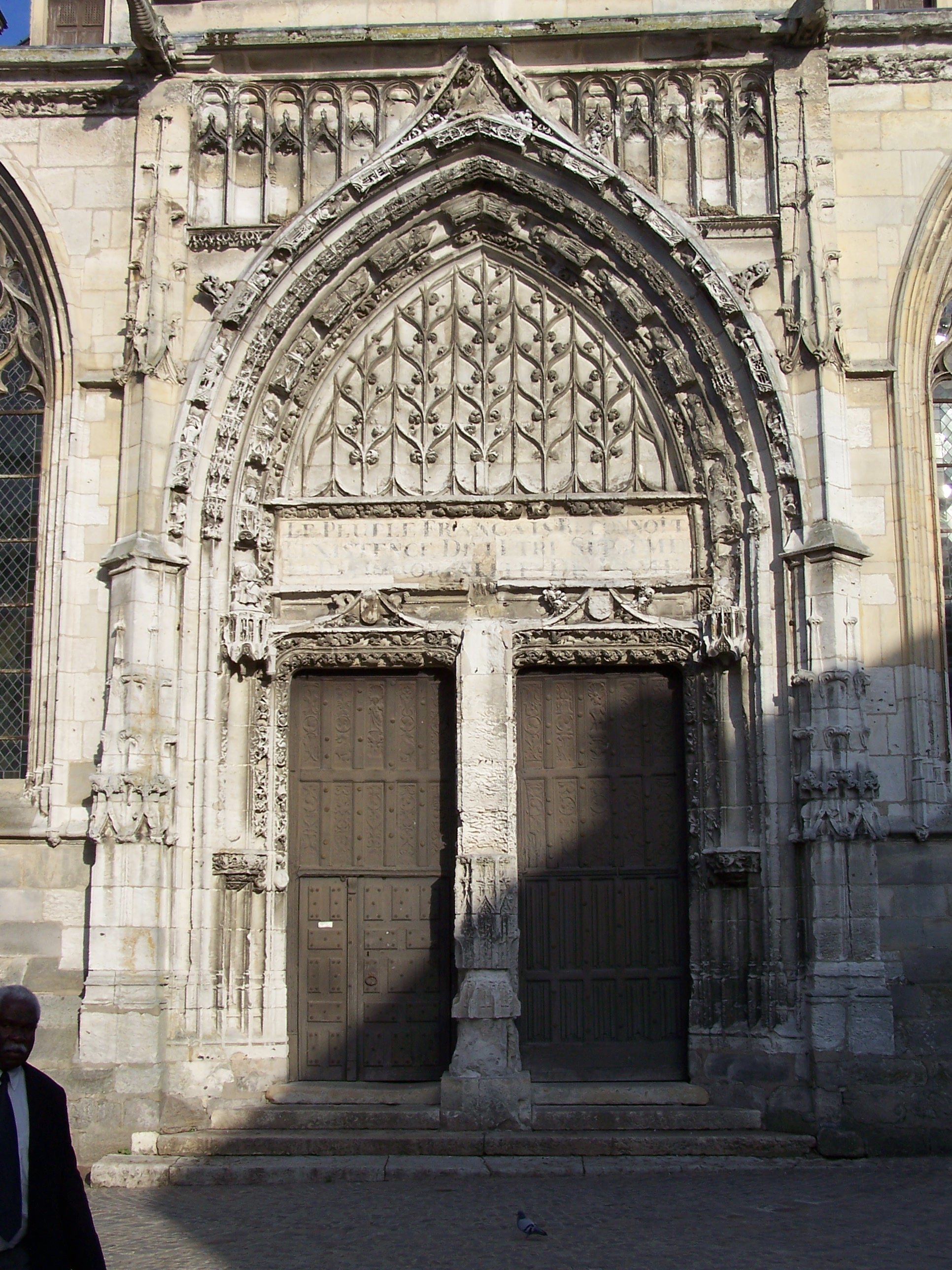 Porch of the church of Houdan (Yvelines, France)